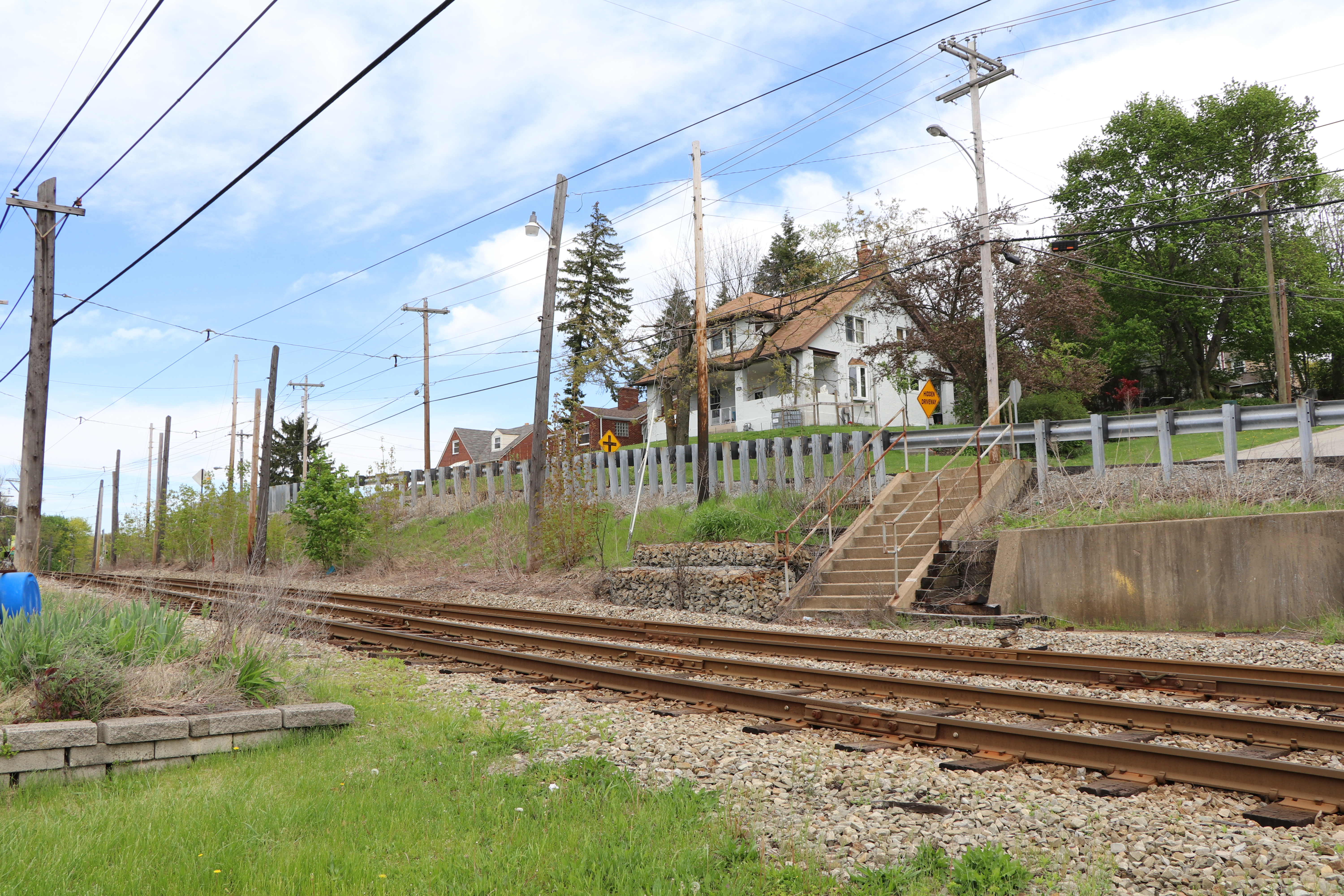 The remains of Center station on the Blue Line, Bethel Park, PA in 2017. View looking north.